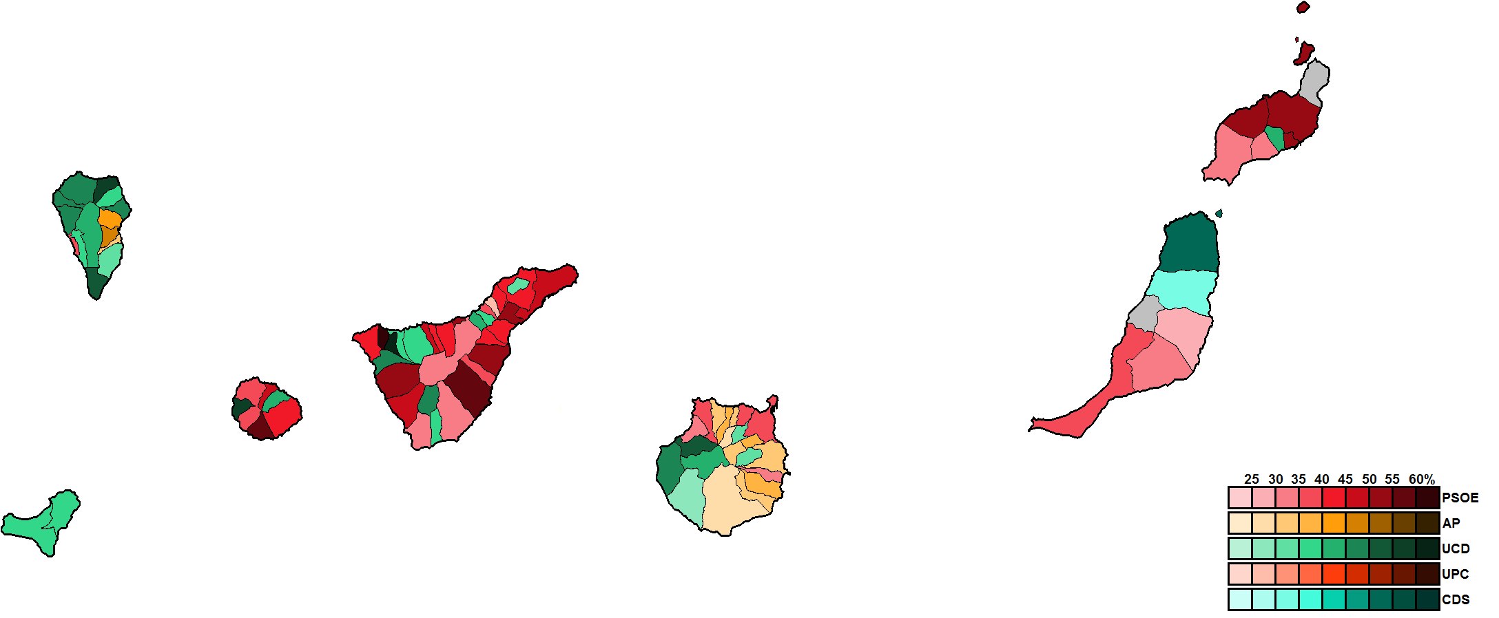 Most-voted party in Canary Islands municipalities, showing vote share obtained, in the Spanish general election, 1982.